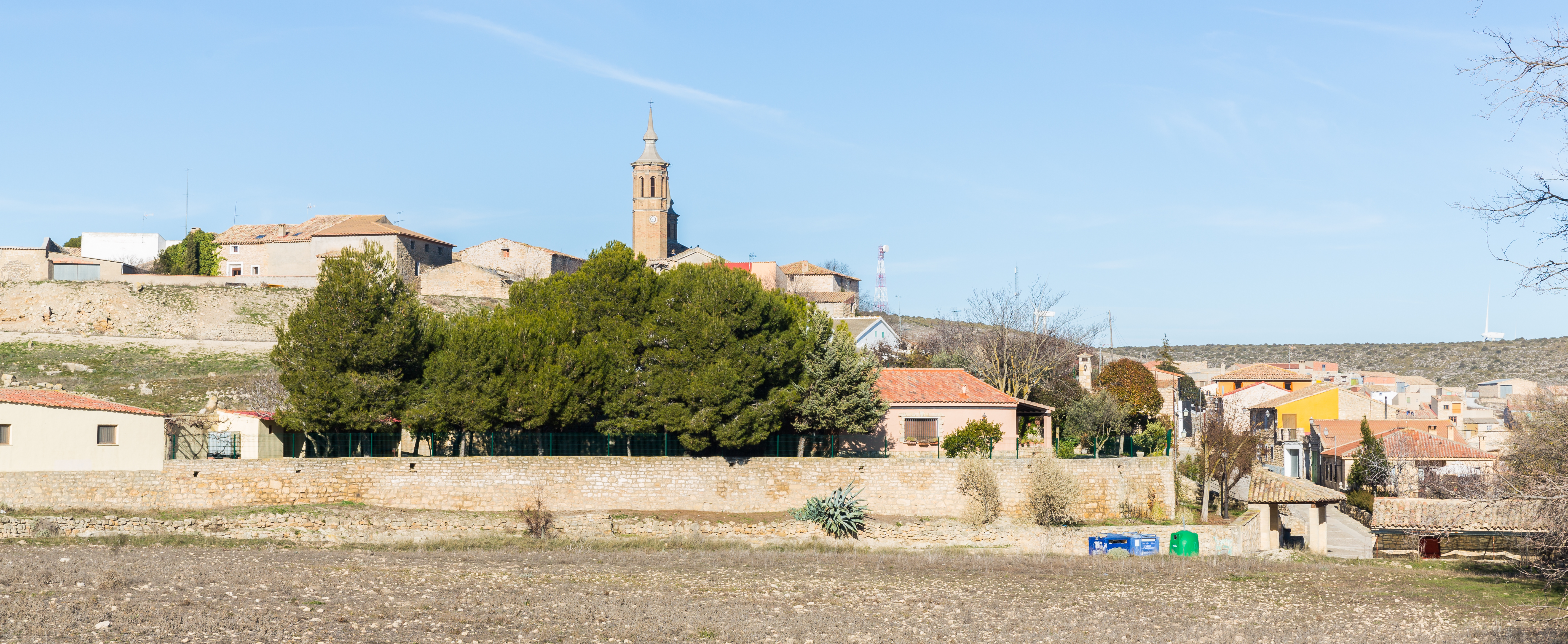 View of Fuendetodos, Zaragoza, Spain